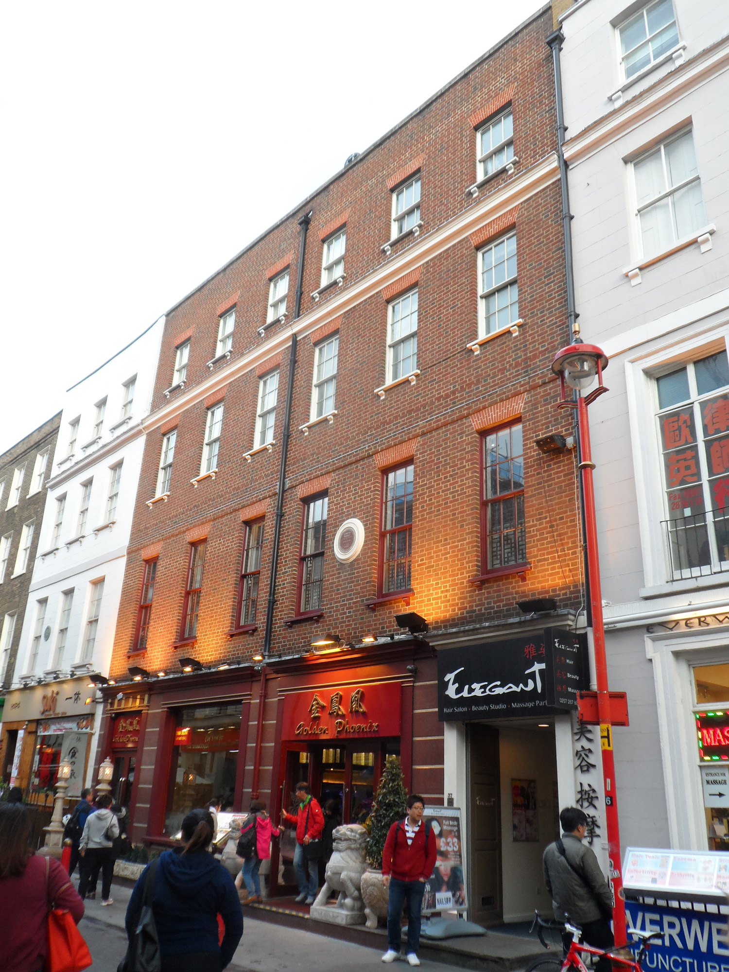 EDMUND BURKE AUTHOR AND STATESMAN LIVED HERE. B. 1729. D.1797.